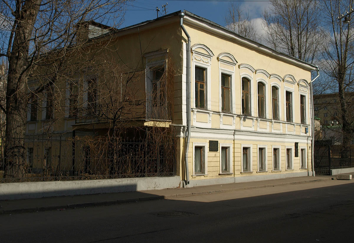 Delesal House, 1st Neopalimovsky Lane, Moscow. Early XIX century, exterior finishes - mid XIX century. Home of Nashe Nasledie magazine. Memorial plaque to Dmitry Likhachev, the editor.